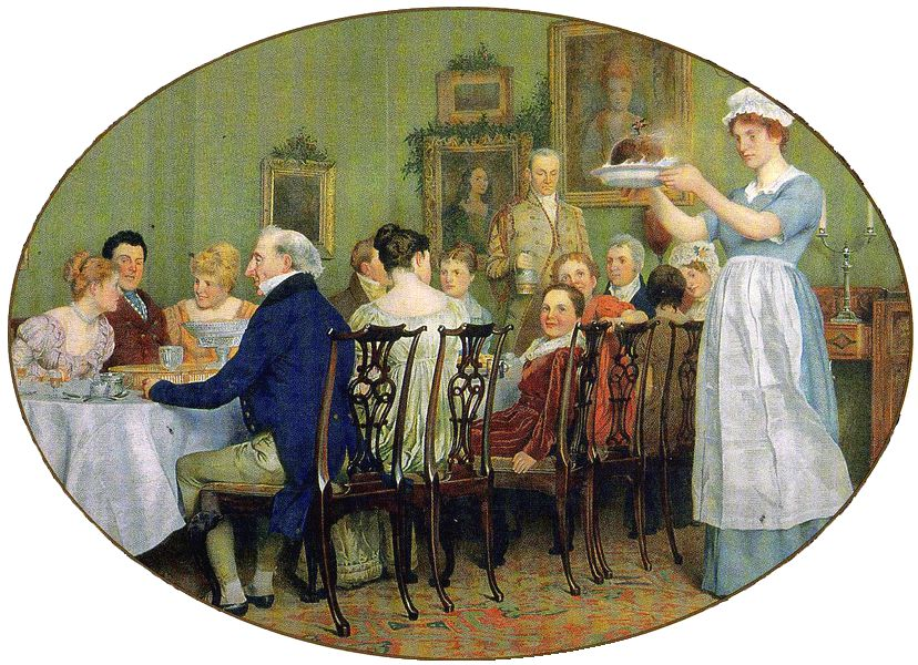 Victorian depiction of early 19th-century Christmas celebration, with servant carrying pudding to dining table.